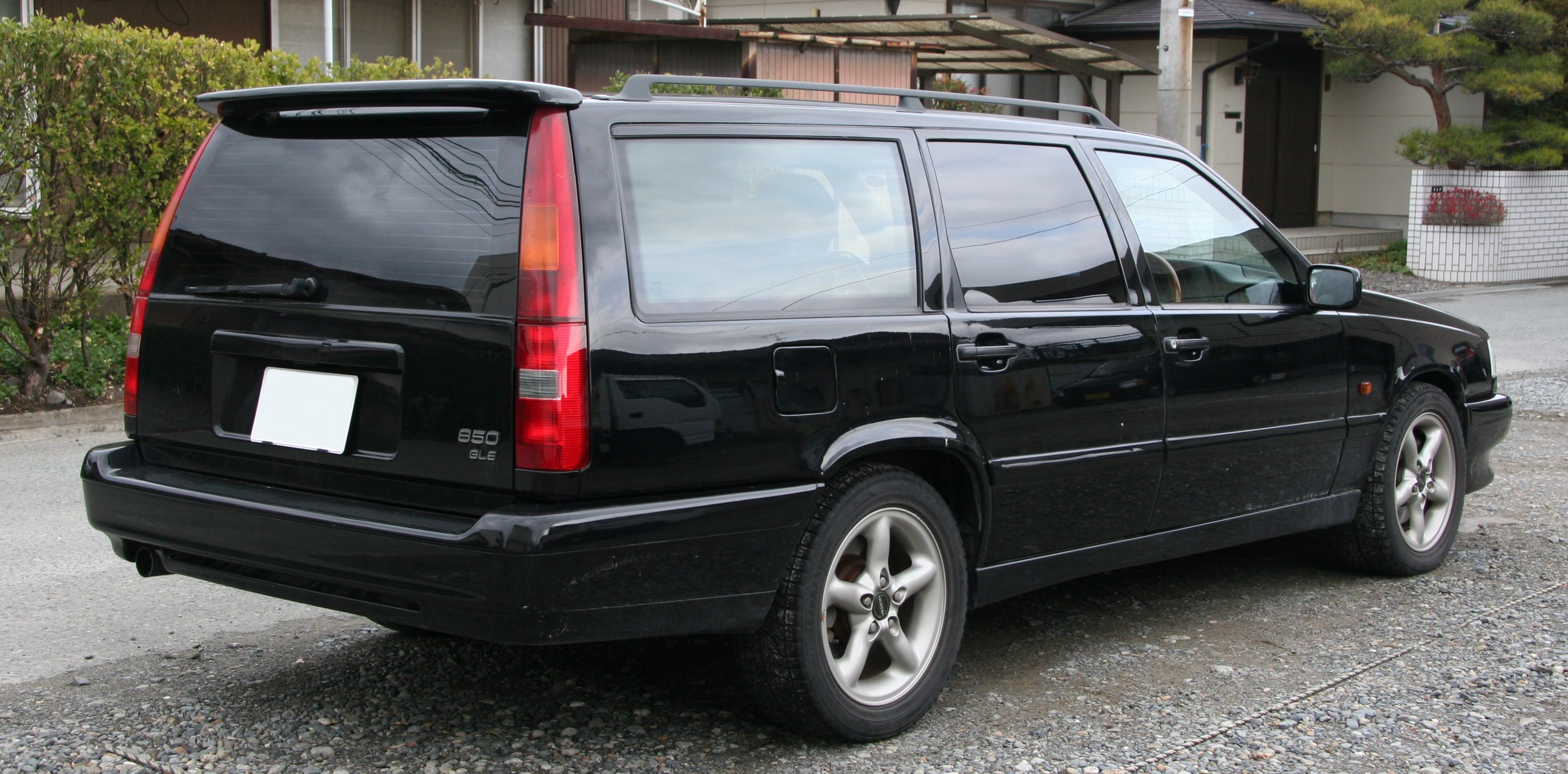 Volvo 850